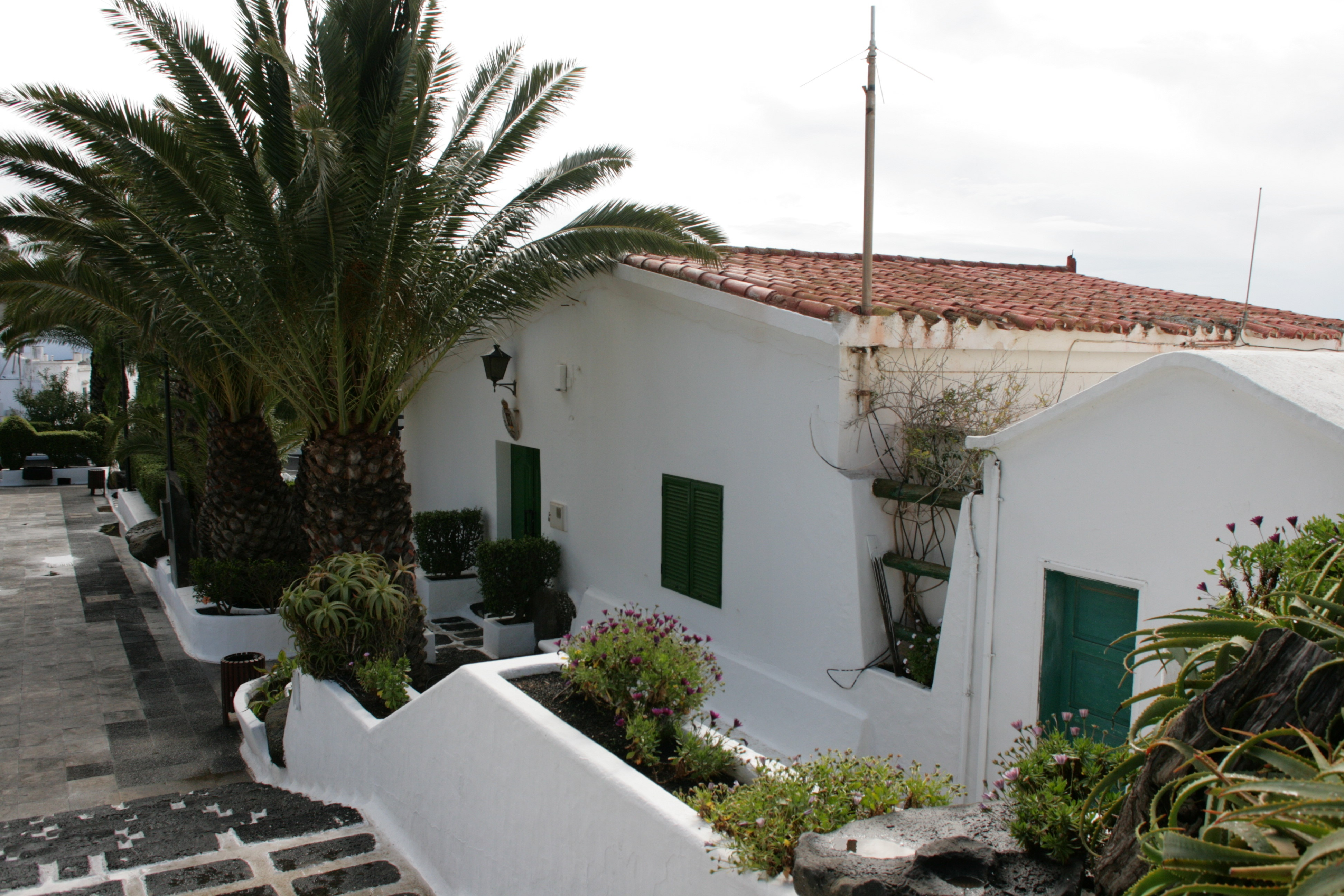 Plaza León y Castillo, the central square in San Bartolomé, Lanzarote, Canary Islands.